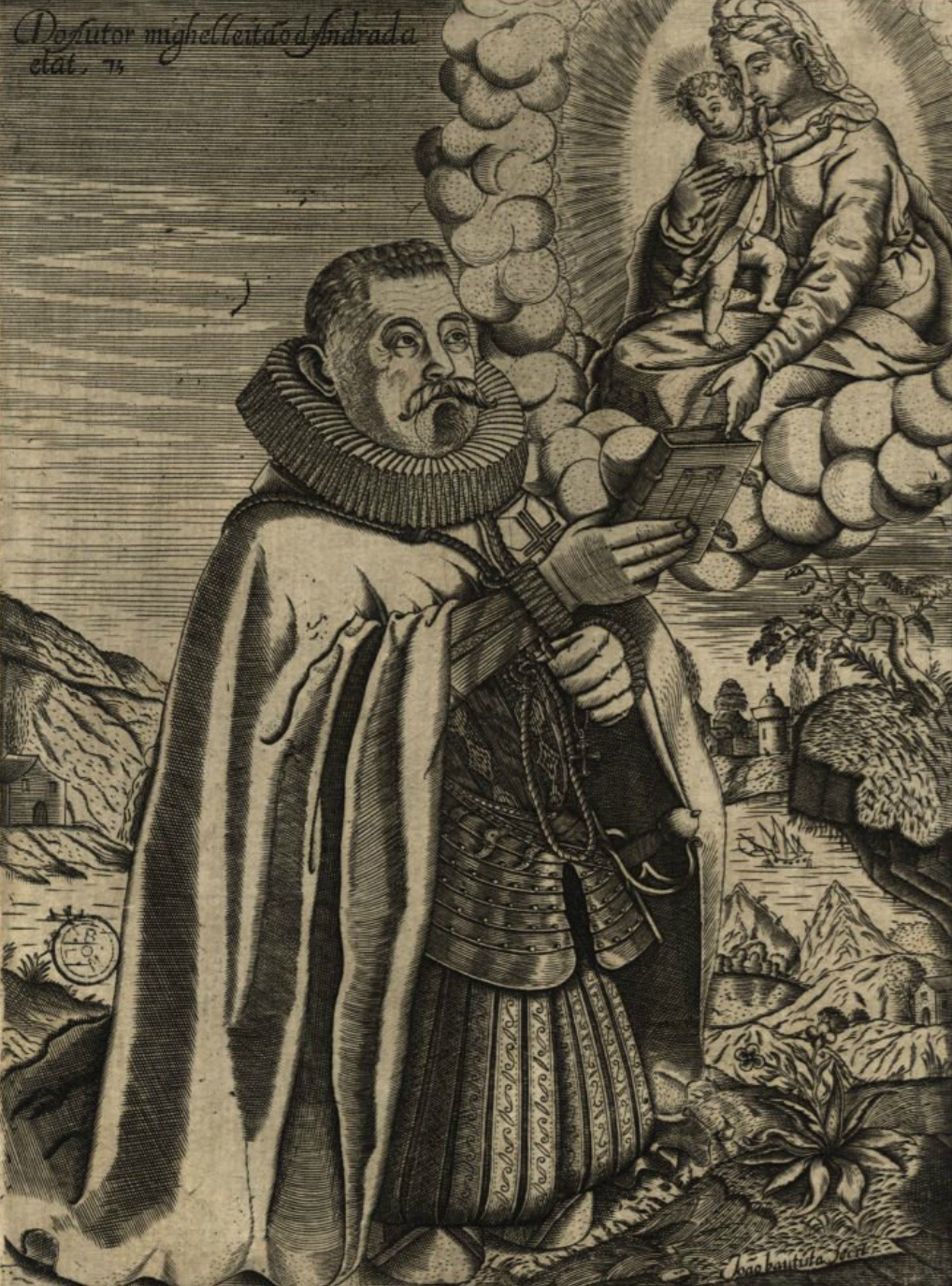 Miguel Leitão de Andrada (1553-1630), Portuguese jurist and writer.